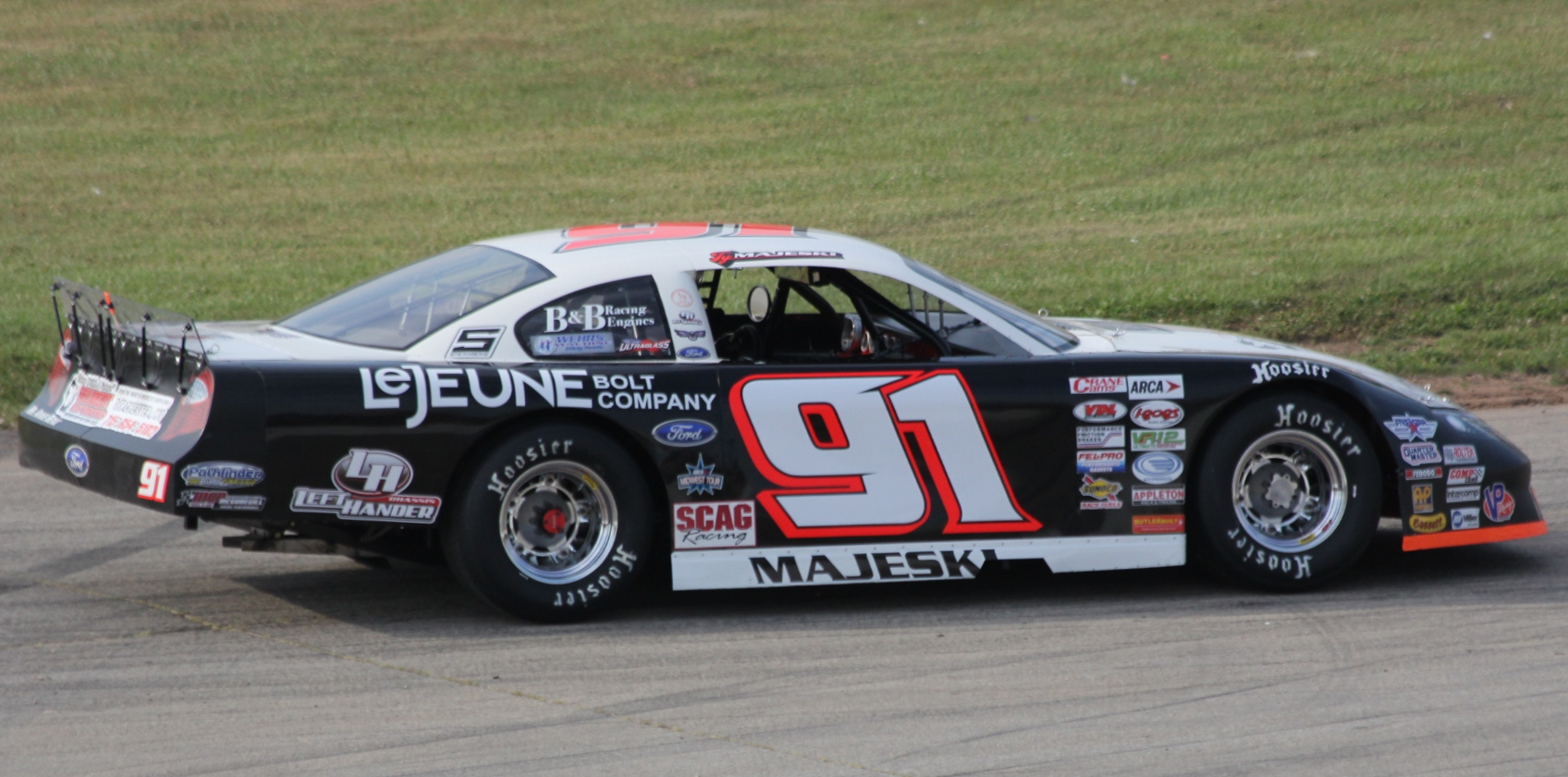 The stock car of 2014 ARCA Midwest Tour champion Ty Majeski.